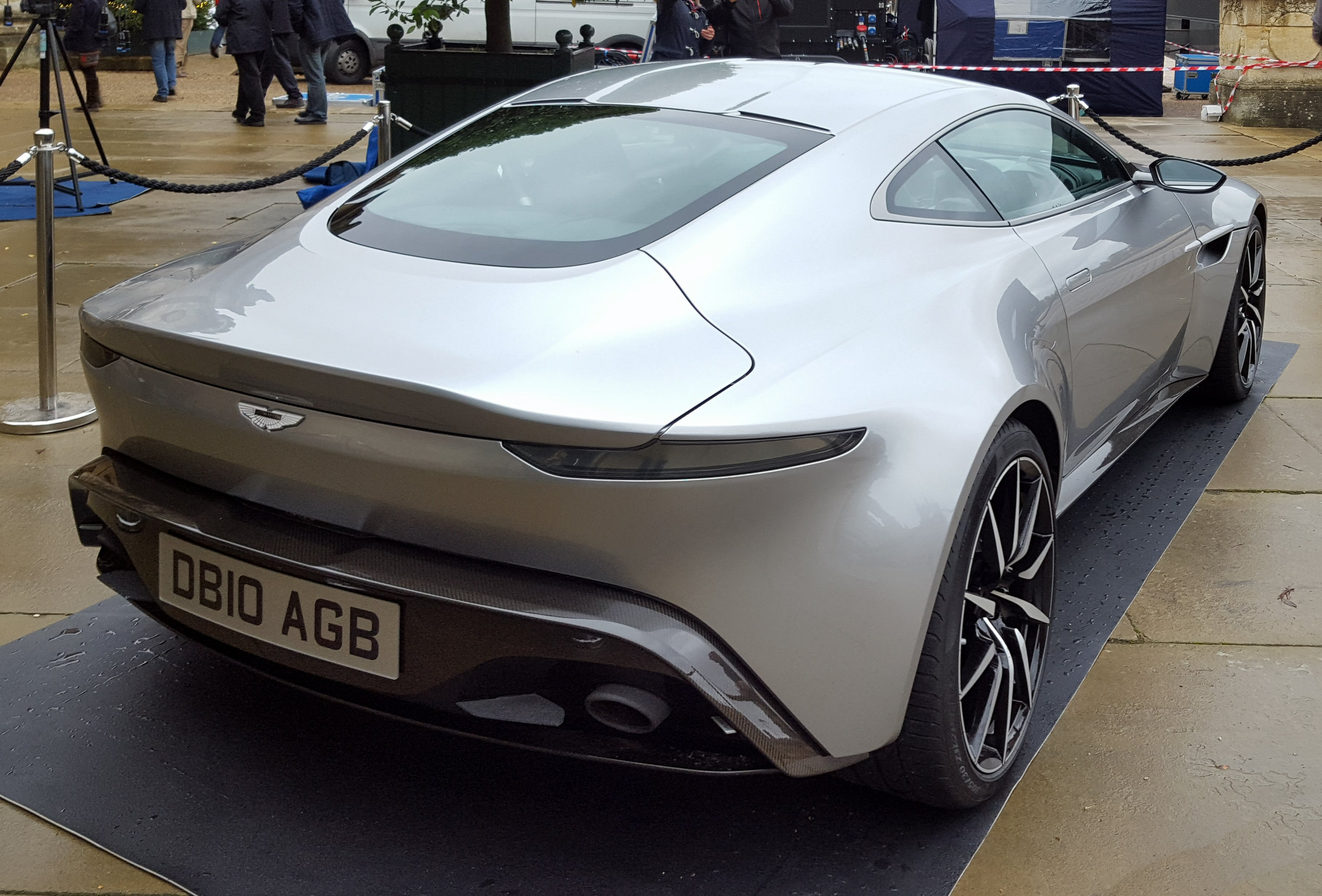 Aston Martin DB10, the James Bond car in the film Spectre. Photographed in the Great Court at Blenheim Palace where it was on display for the premiere of the documentary DB10: Built for Bond.[1]